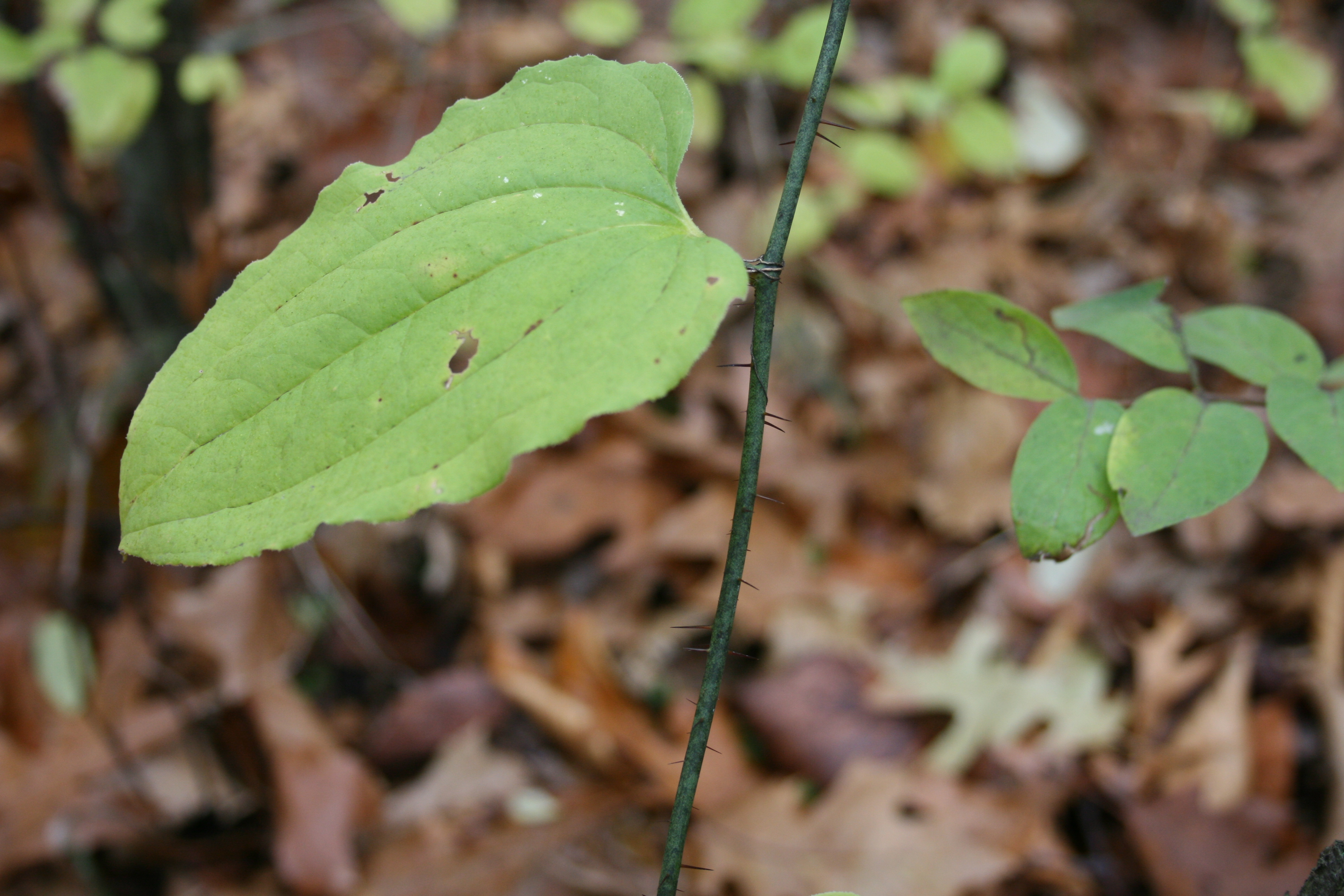 Bristly Greenbriar (Smilax hispida = Smilax tamnoides) at Fort Custer Recreation Area, Augusta, MI.